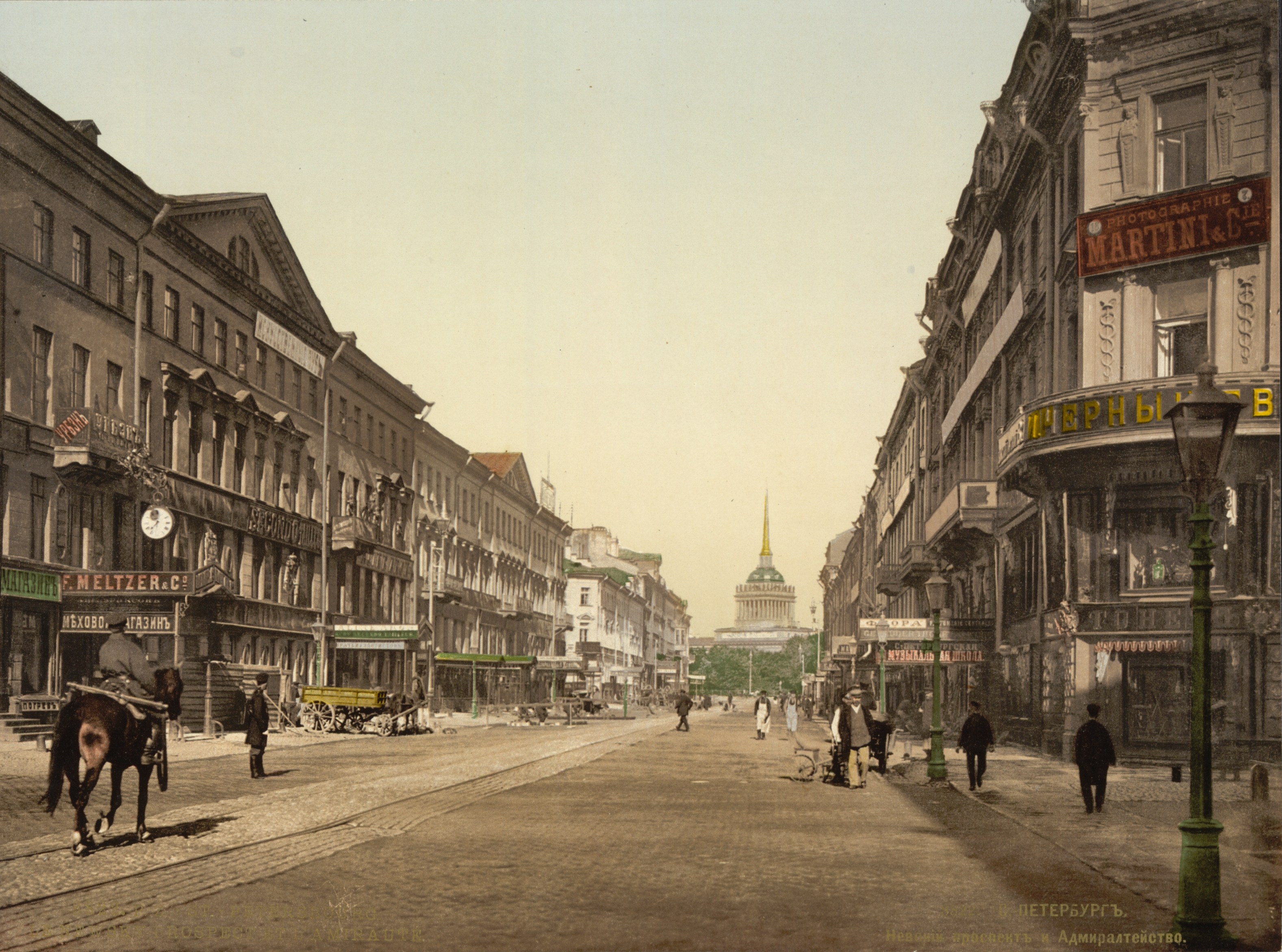 Nevsky Prospekt (or Neva Avenue) and Admiralty in Saint Petersburg (Russia). 19th-century photochrome print (1890—1900)